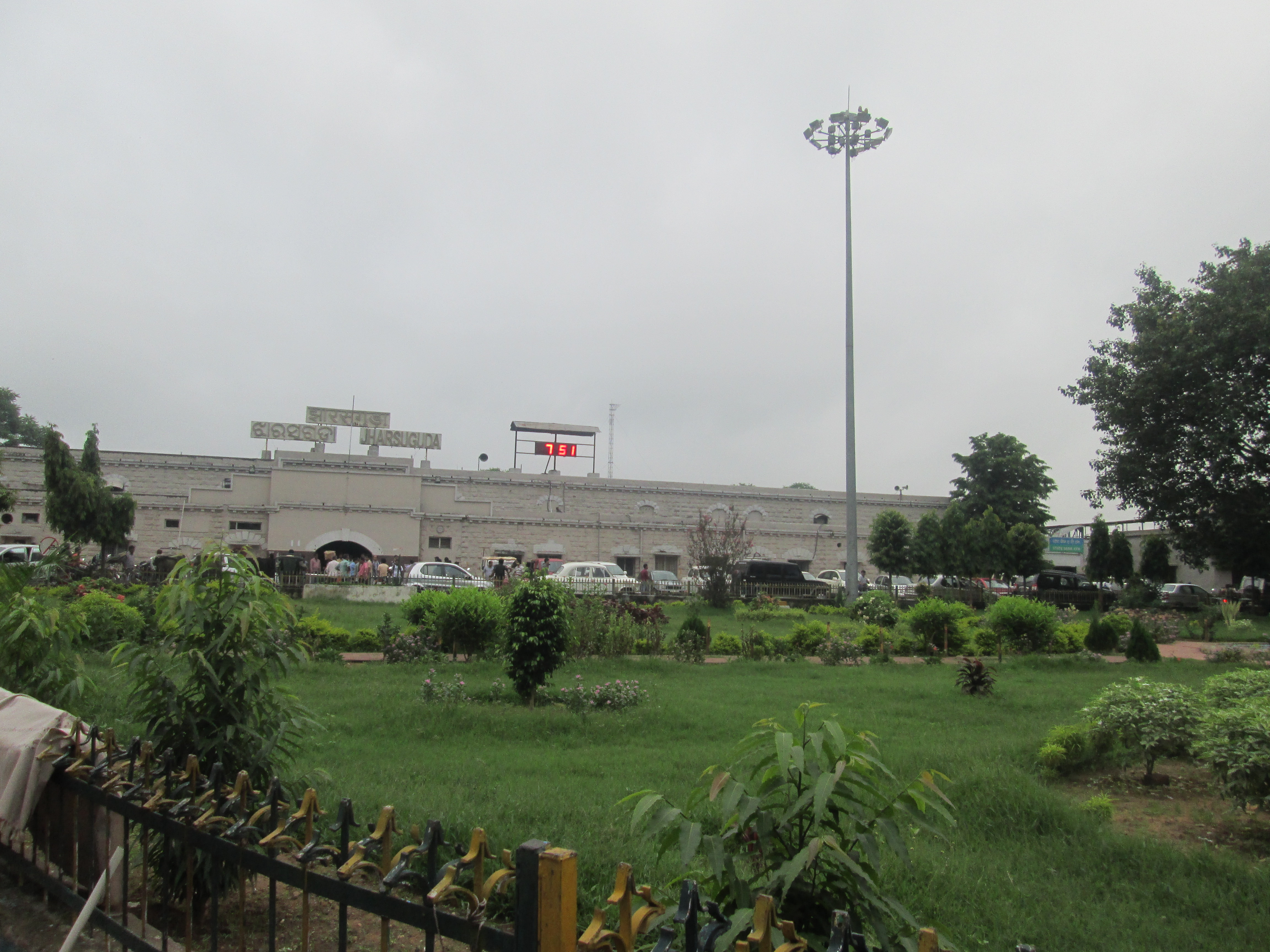 Jharsuguda Railway Station ଓଡ଼ିଆ: ଝାରସୁଗୁଡ଼ା ରେଳ ଷ୍ଟେସନ